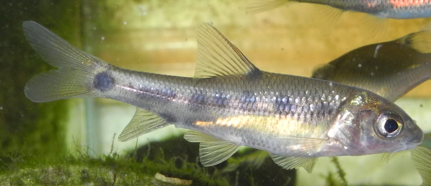 China, Guizhou province,2010-07-20,300mm, by zzxzzx